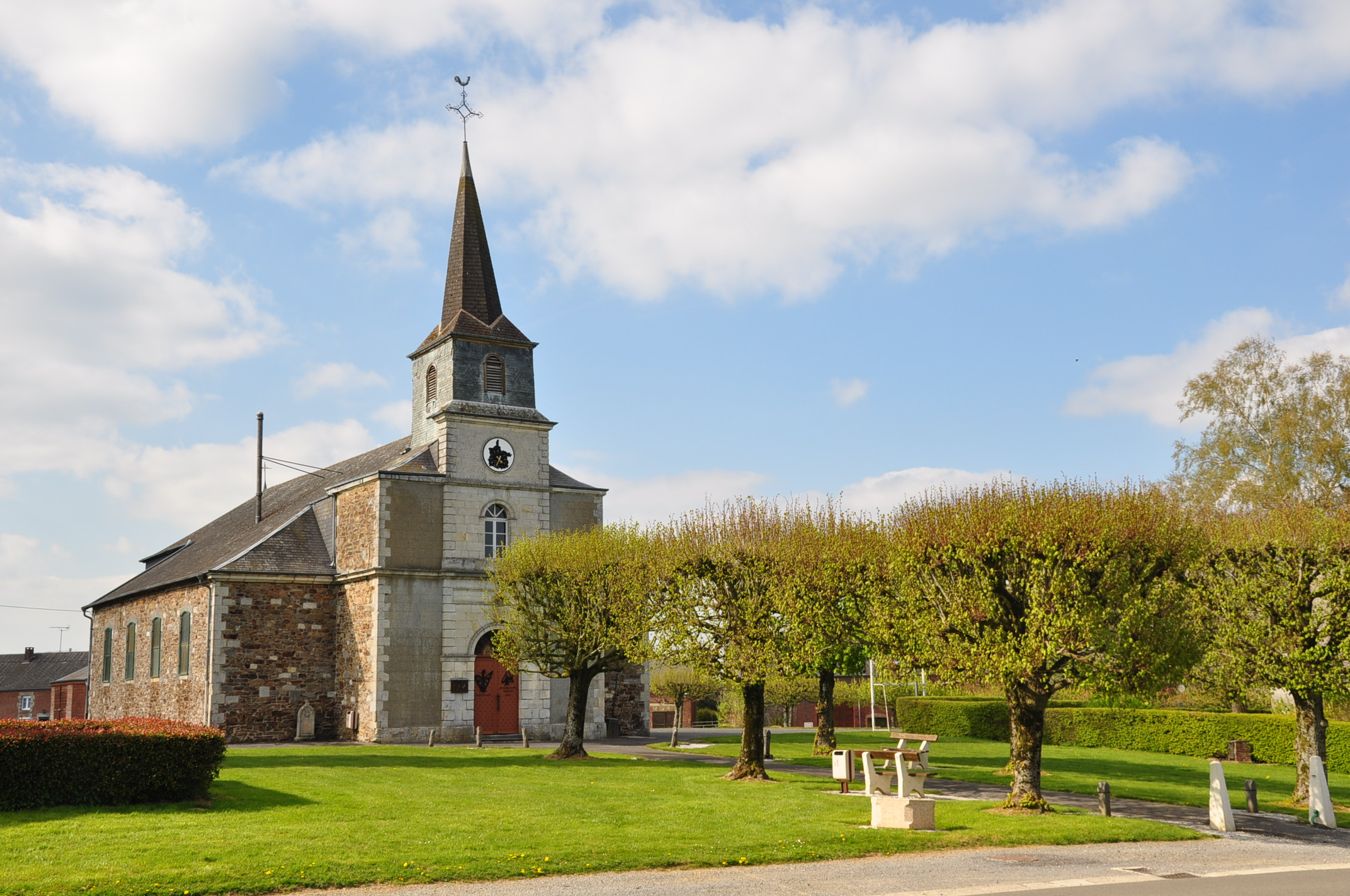 Church of the Holy Trinity in Regniowez (Ardennes department, Champagne-Ardenne region, France).